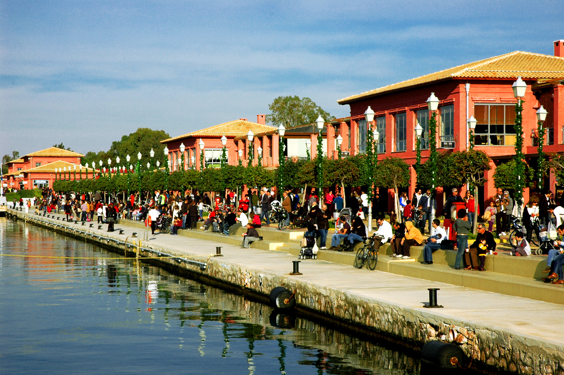 Promenade in Flisvos Marina, Athens - Greece